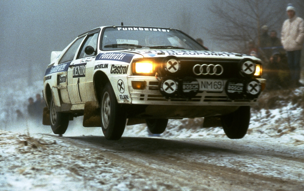 Austrian multiple Rally champion Franz Wittmann senior and his Audi quattro A2 pictured on their way to victory in the 1984 Jänner-Rallye of Austria.